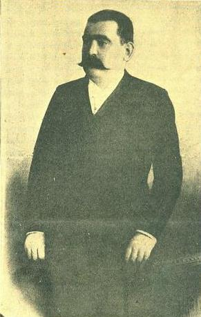 Hristo Buchkov from Kukush, teacher in Bulgarian men school in Thessaloniki